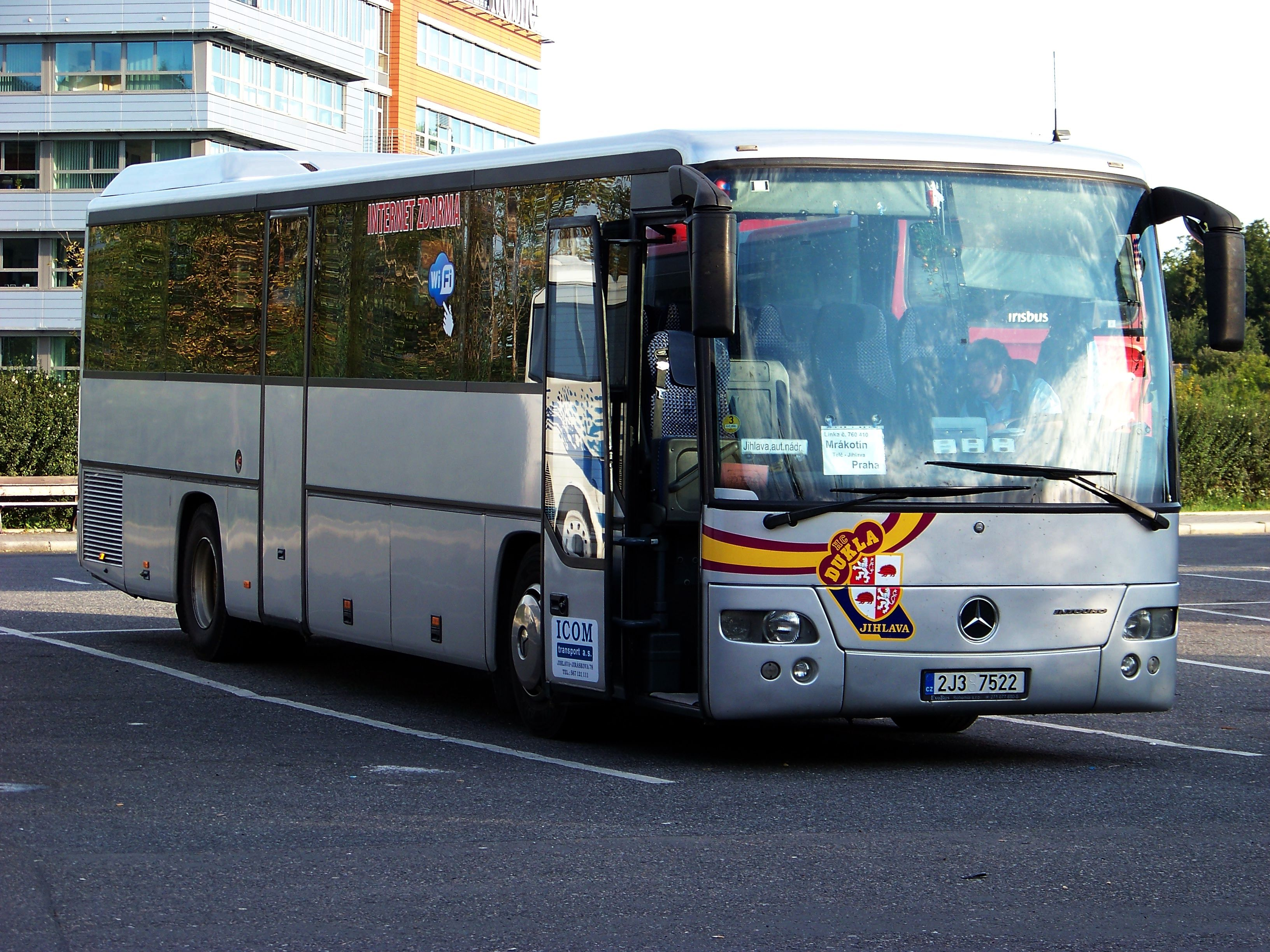 Prague-Chodov, the Czech Republic. Roztyly, bus of ICOM transport. - Google Maps - Google Earth